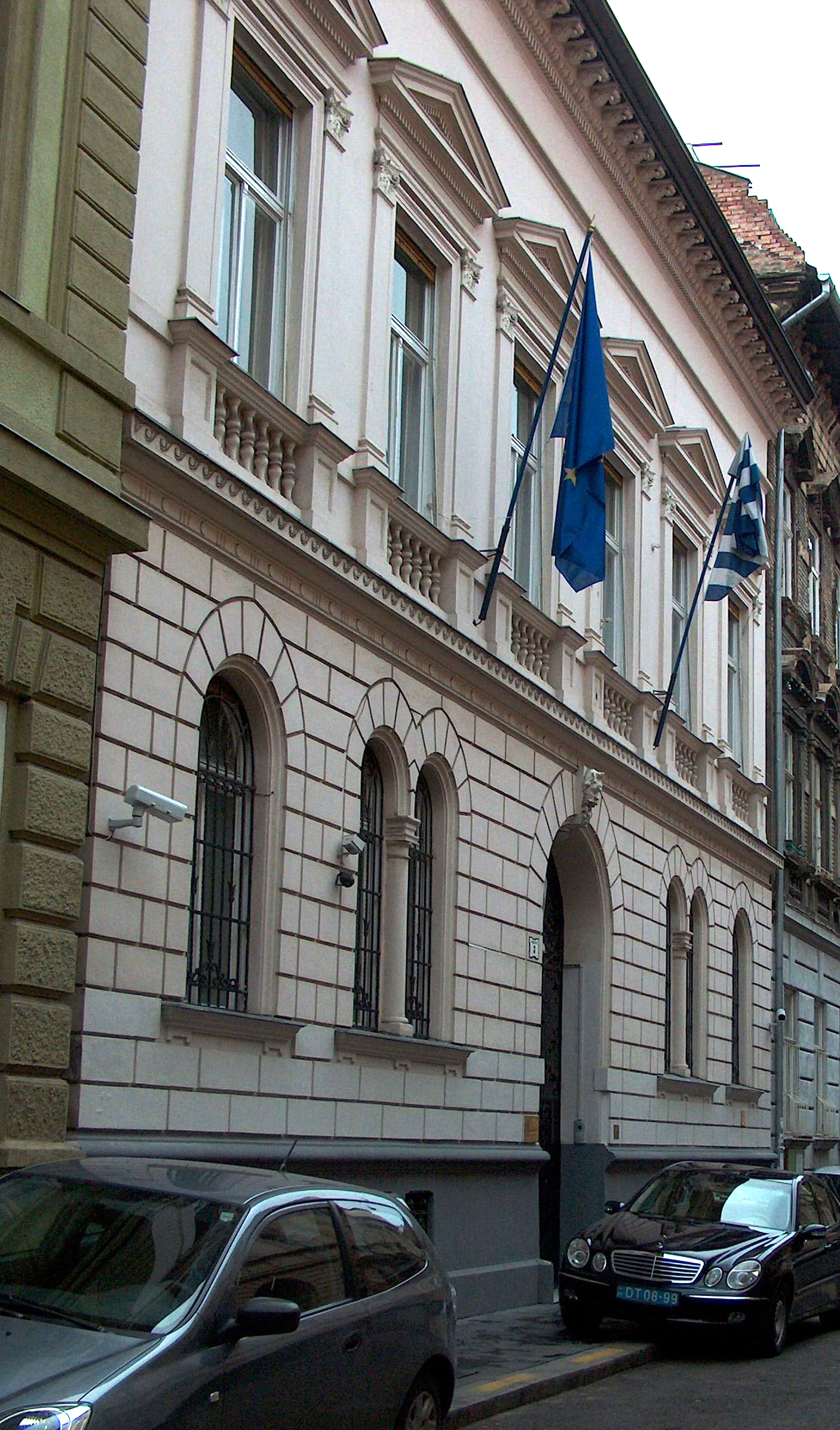 Embassy of Greece - Budapest